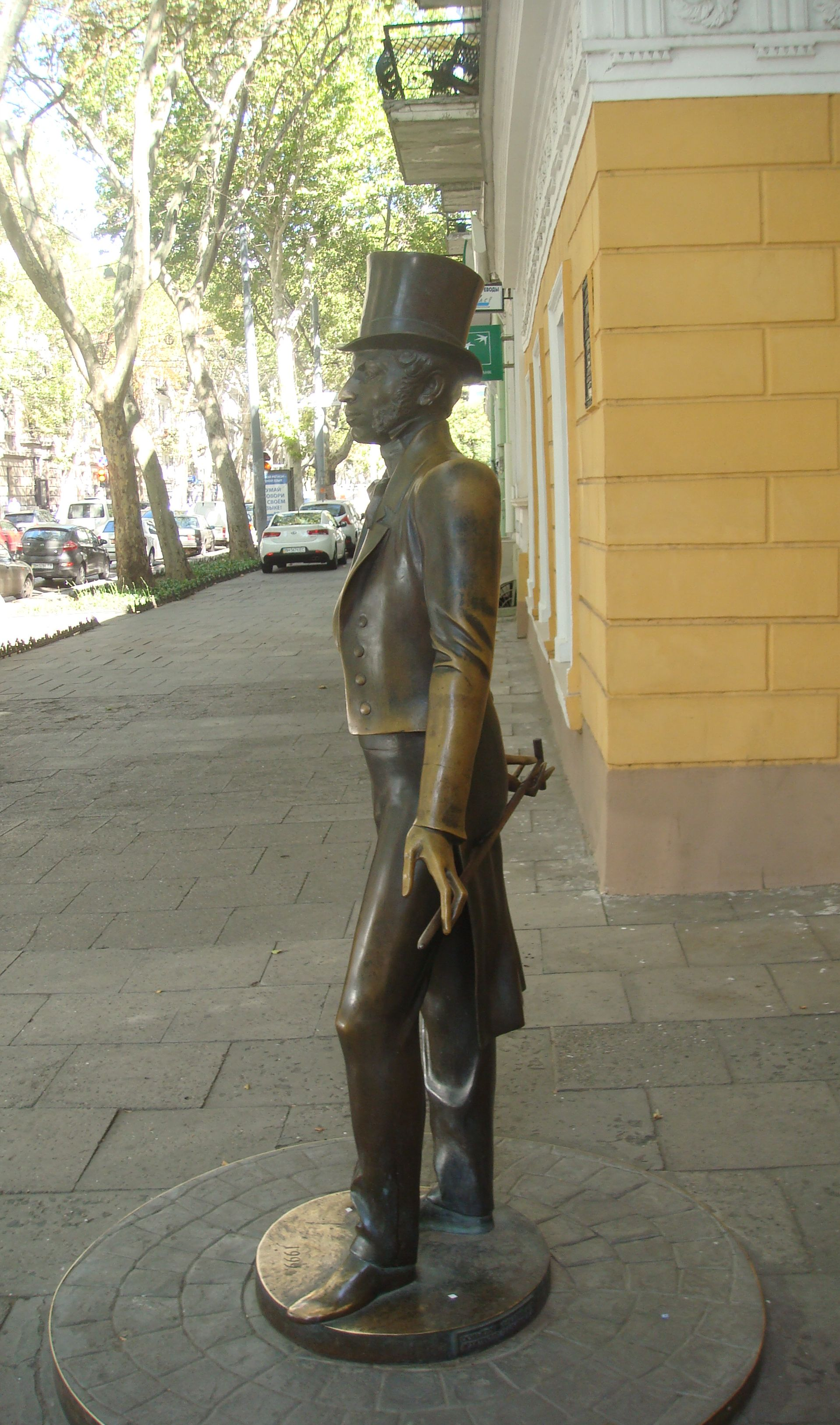 Statue of Russian poet Alexander Pushkin in Odessa, Pushkinskaya street # 13. Erected in 1999.